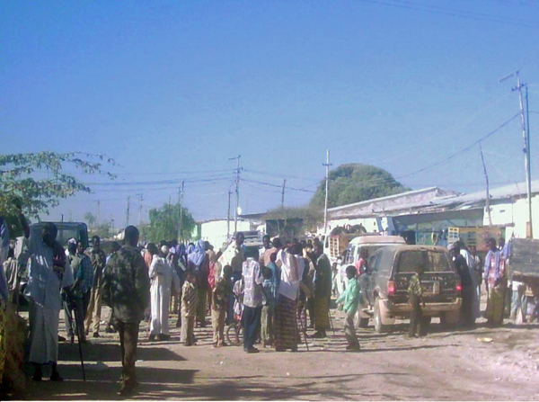 One of the markets in Badhan, Maakhir, Somalia